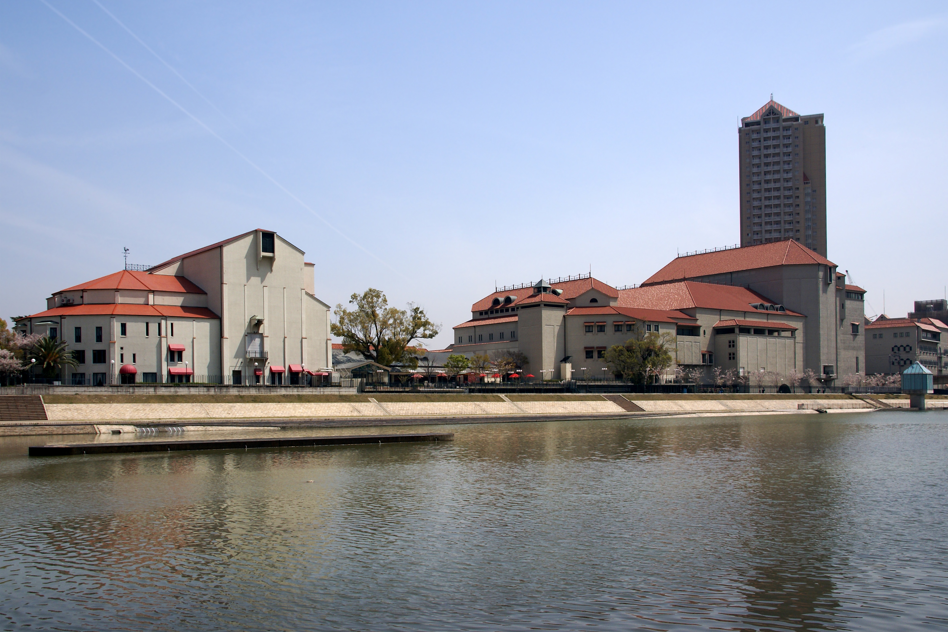 Takarazuka Grand Theater, Bow Hall and Takarazuka Music School in Takarazuka, Hyogo prefecture, Japan